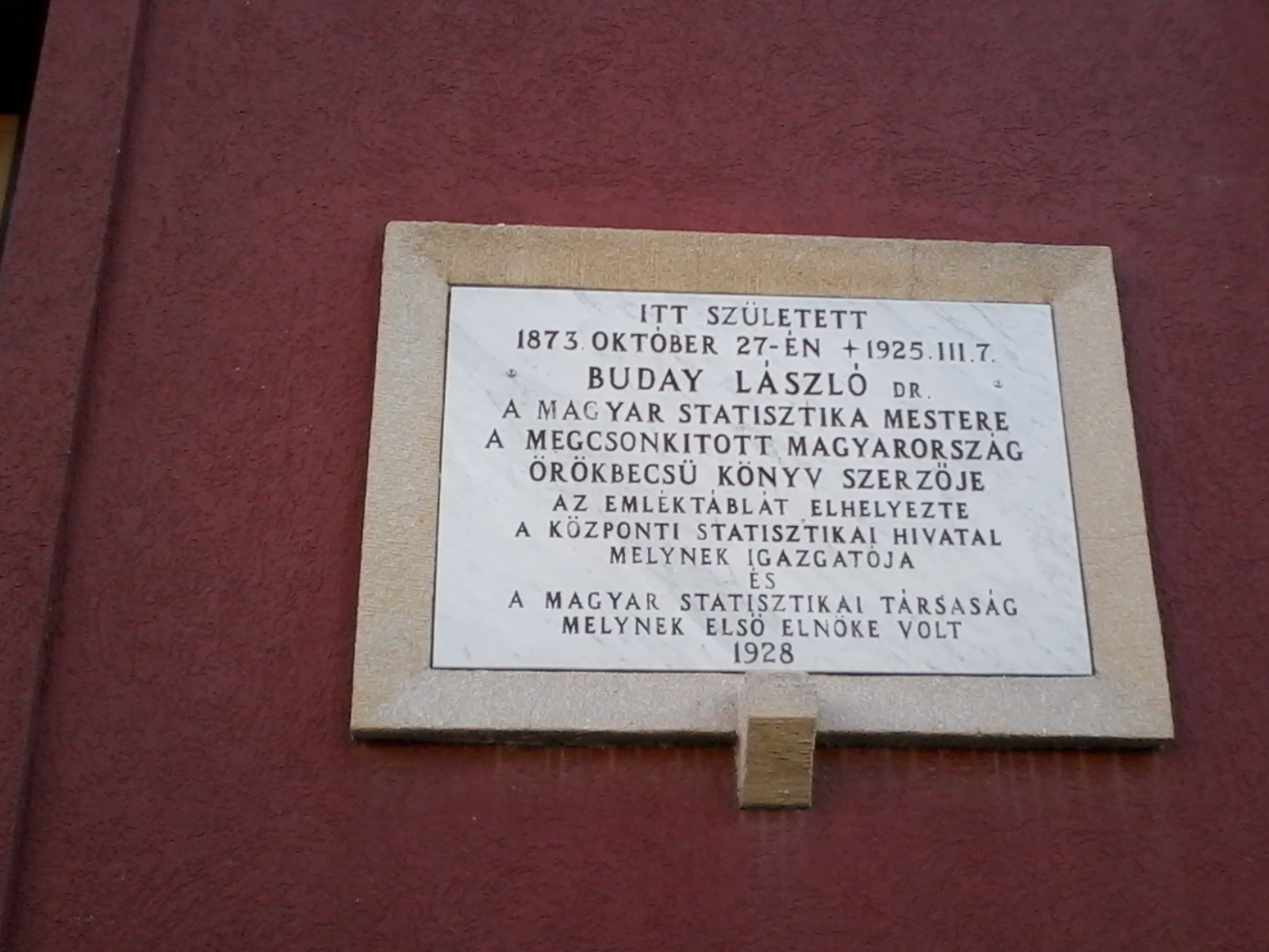 László Buday commemorative plaque in Pécs.